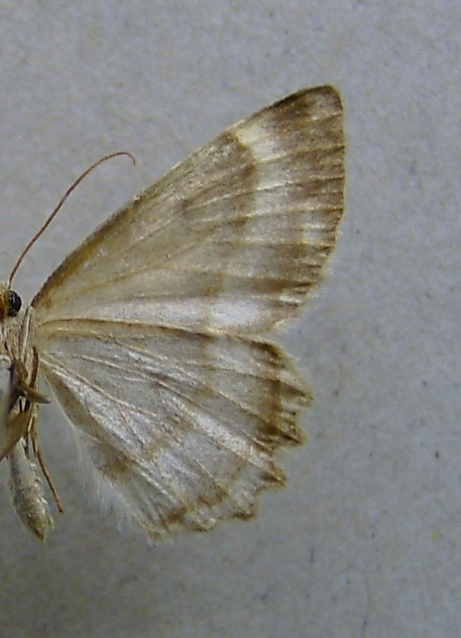 Charissa glaucinaria, underside, Riezlern, Kleinwalsertal, Austria